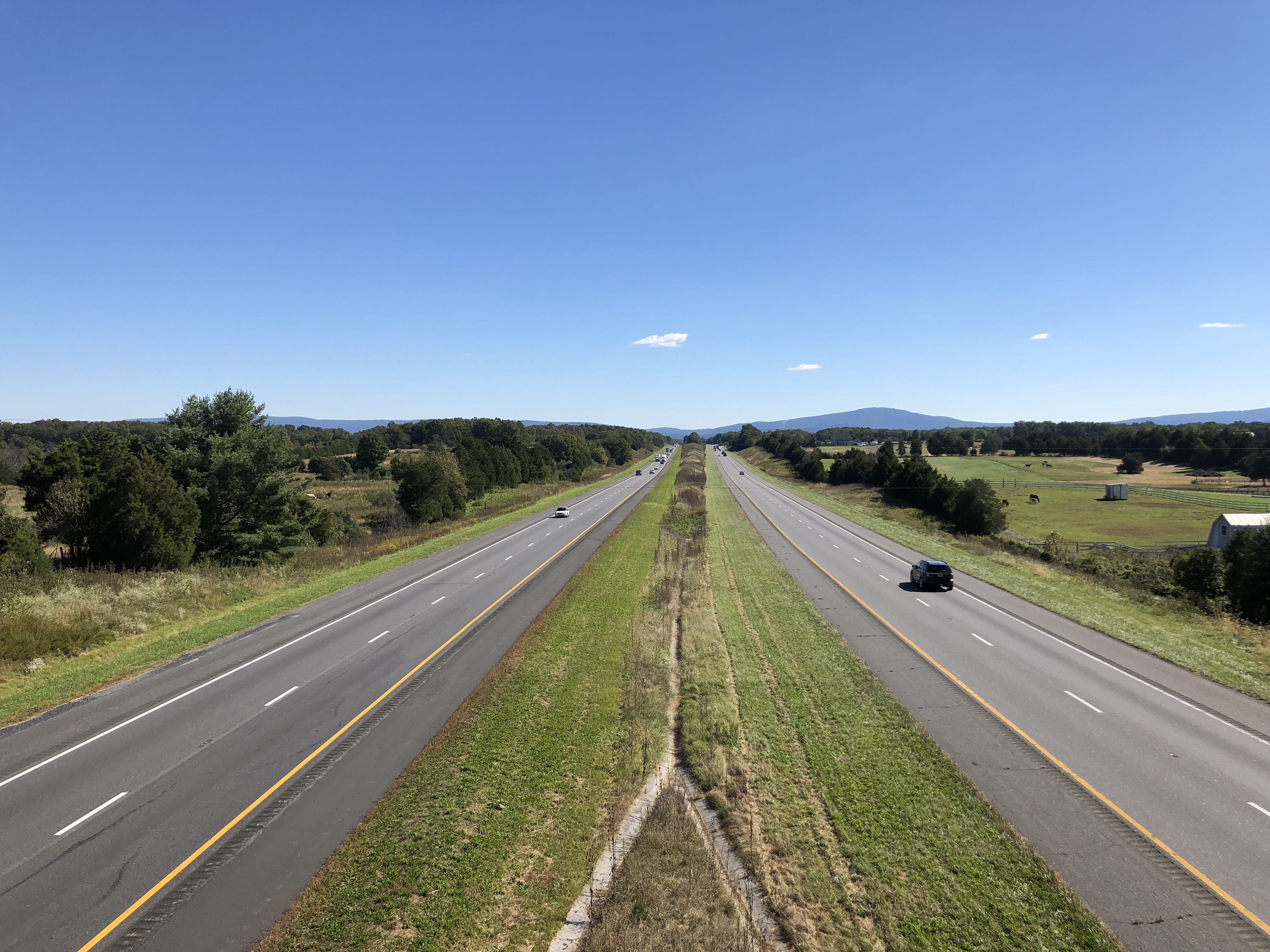 View east along Interstate 66 from the overpass for River Road (Virginia State Route 637) in Reliance, Warren County, Virginia